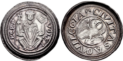 Italy, Aquileia. Volchero di Erla, patriarch (1204-1218). AR Denaro (21mm, 1.23 g, 9h). VOLF.KER.P Patriarch sitting facing holding Gospel and cross tipped staff; CIVITAS AQUILEGIA nimbate eagle standing right on rock with wings displayed.